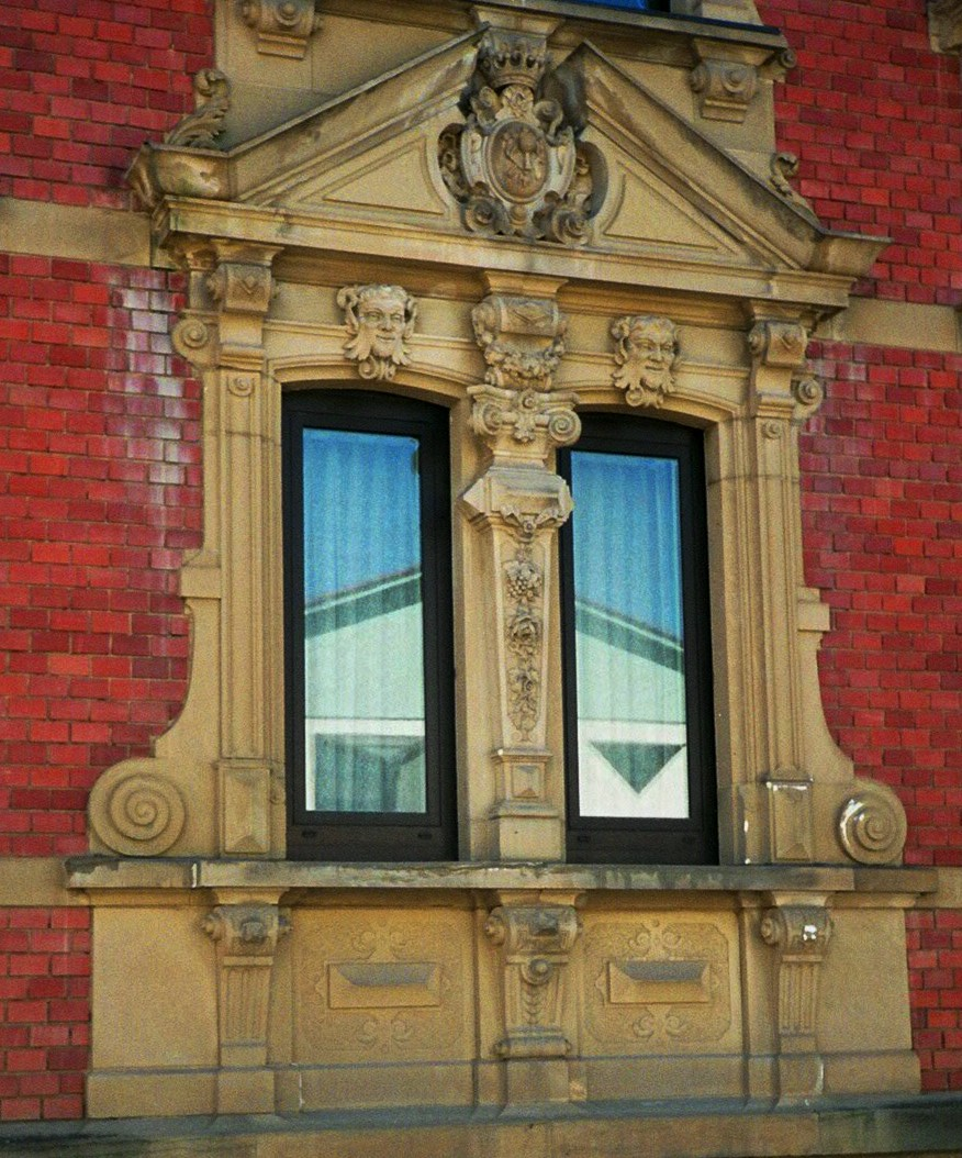 Flein_Ilsfelder_Str._72_Ehemaliges_Wohnhaus_des_Bildhauers_Friedrich_Göttle_im_Stil_der_Neorenaissance_(1892)_Detail_Fenster_2.JPG